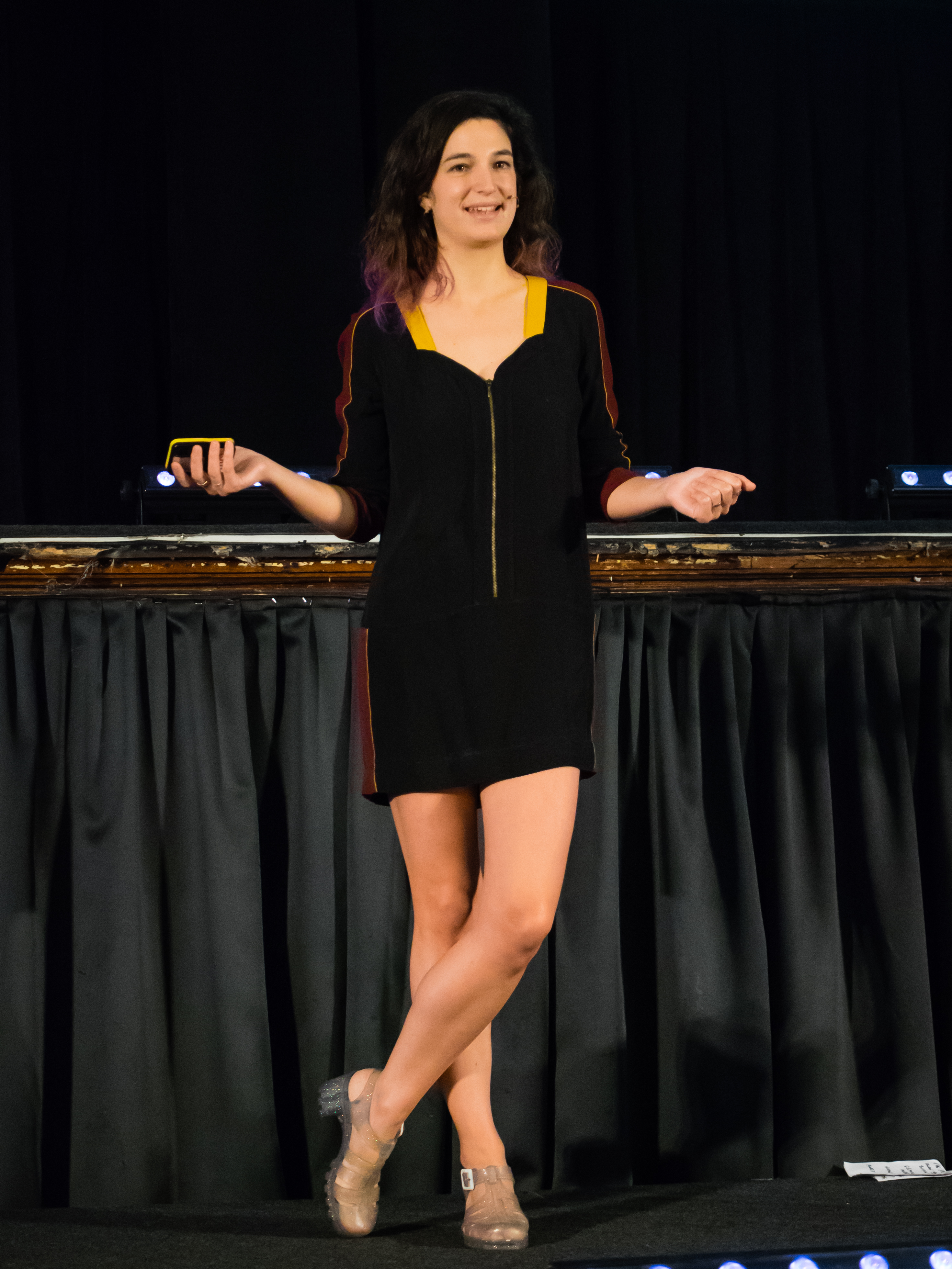 Coralie Colmez speaking at the QED:Question, Explore, Discover conference in the Palace Hotel, Manchester on April the 13th 2014.